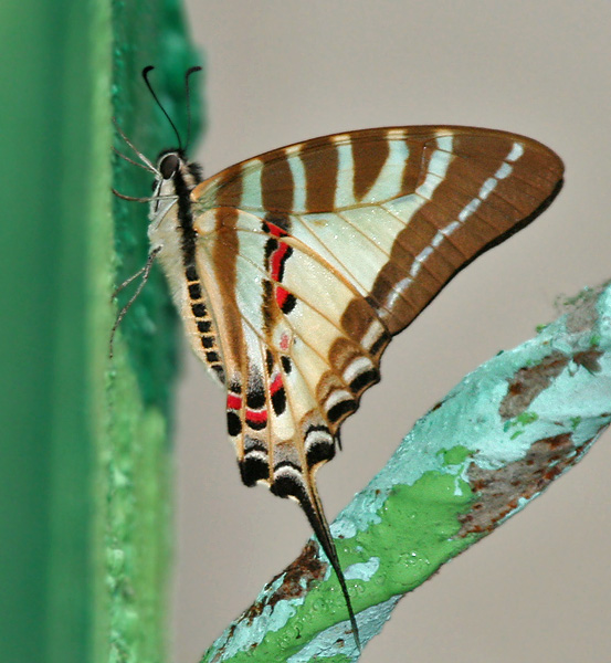 Chain Swordtail, Graphium aristeus, at 23 Mile near Jayanti in Buxa Tiger Reserve in Jalpaiguri district of West Bengal, India. (This specimen does not have the spots along the outer margin like the Graphium nomius.)